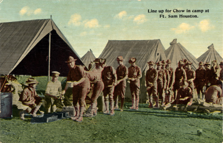 Military Camp, Soldiers, Fort Sam Houston